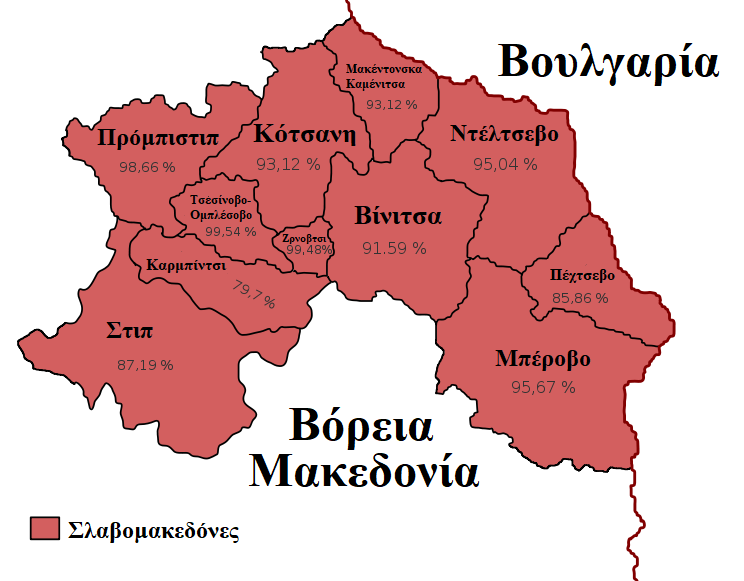 Political map of the majority ethnic groups in the Eastern Statistical Region of North Macedonia in Greek language.